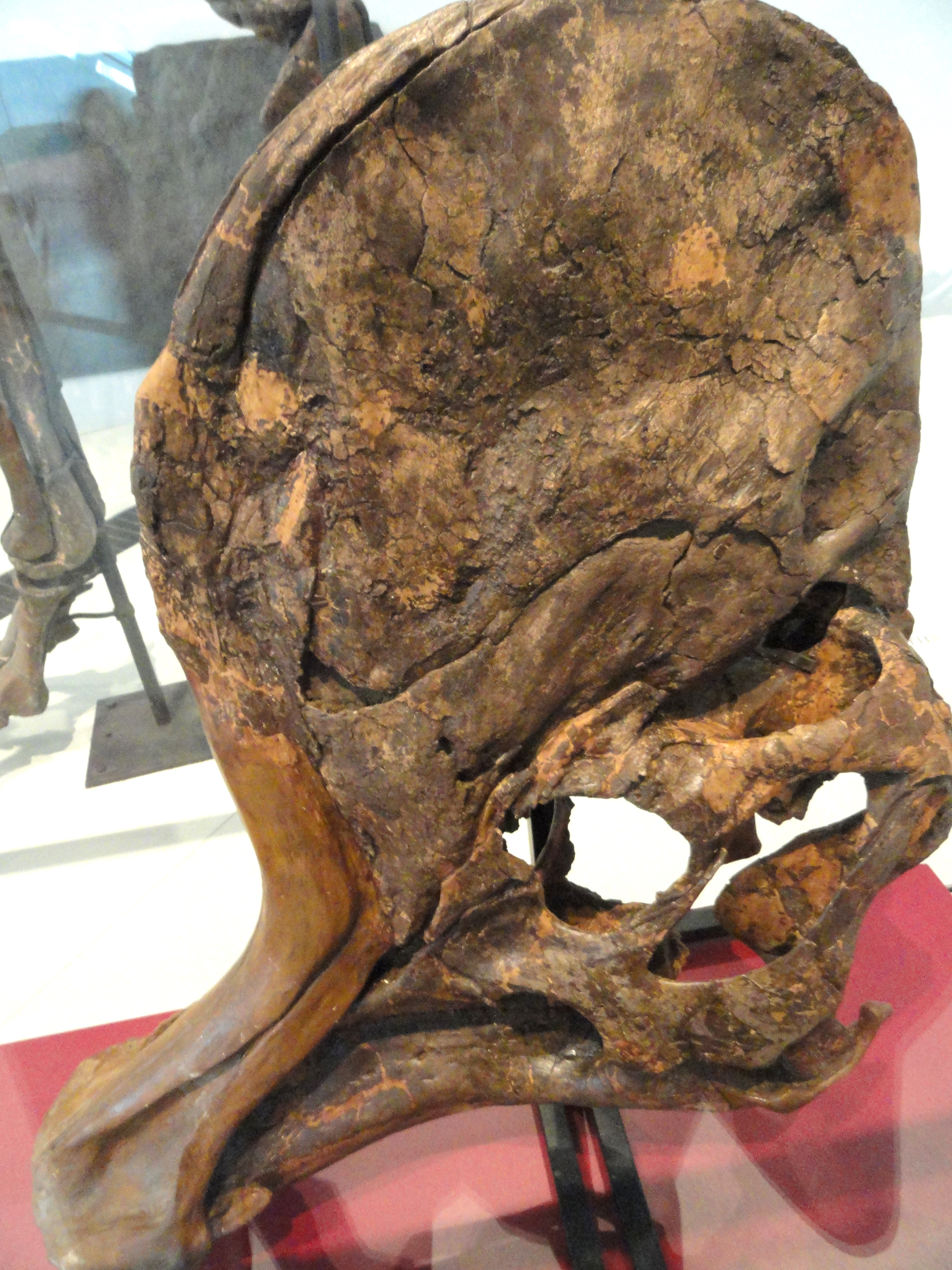 Exhibit in the Royal Ontario Museum, Toronto, Ontario, Canada. This exhibit is old enough so that it is in the public domain, and photography was permitted in the museum. I took this photograph and release it into the public domain.